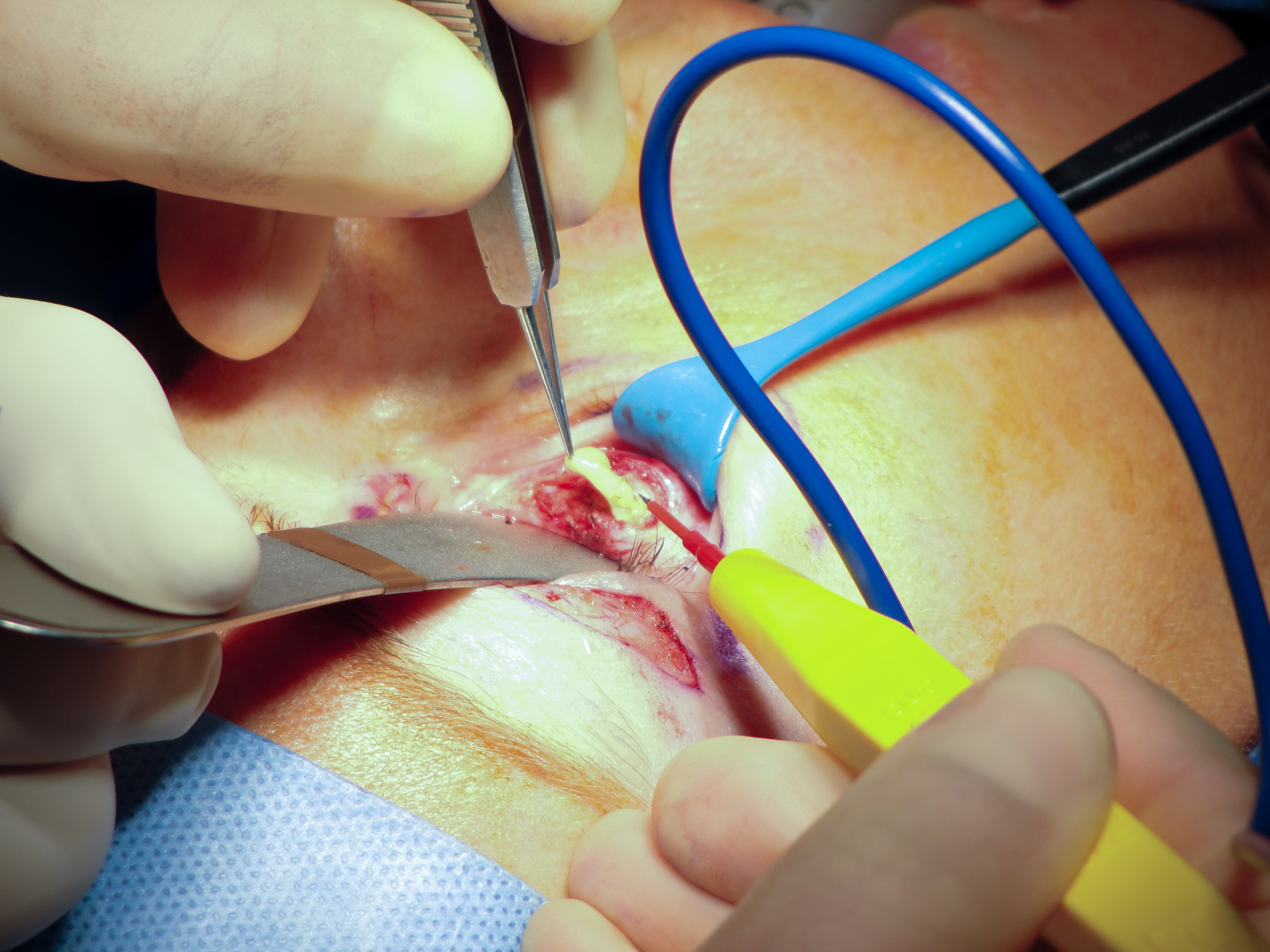 Photo of a transconjunctival blepharoplasty with removal of orbital fat for cosmetic lower eyelid blepharoplasty.